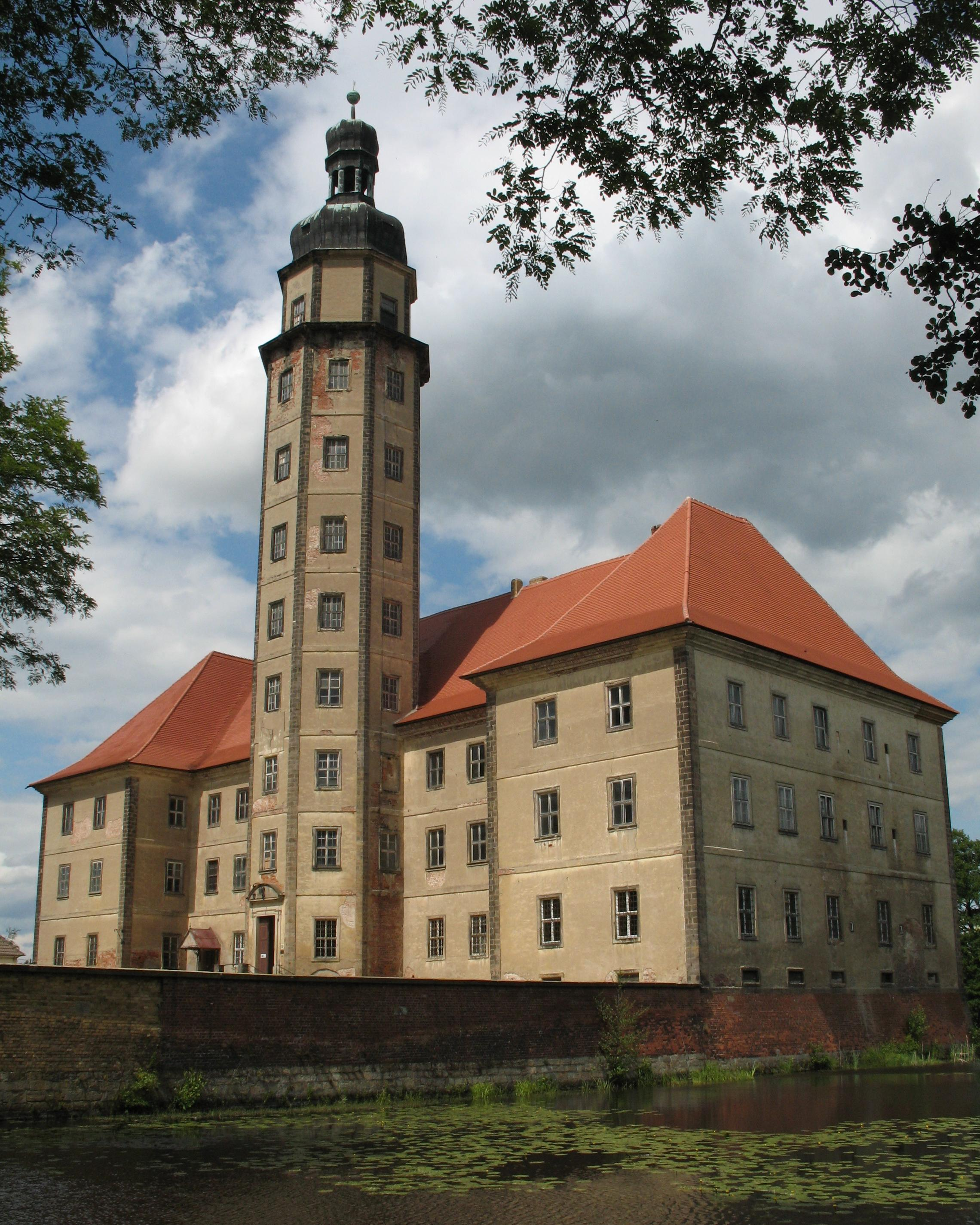 Castle in Bad Schmiedeberg-Reinharz in Saxony-Anhalt, Germany